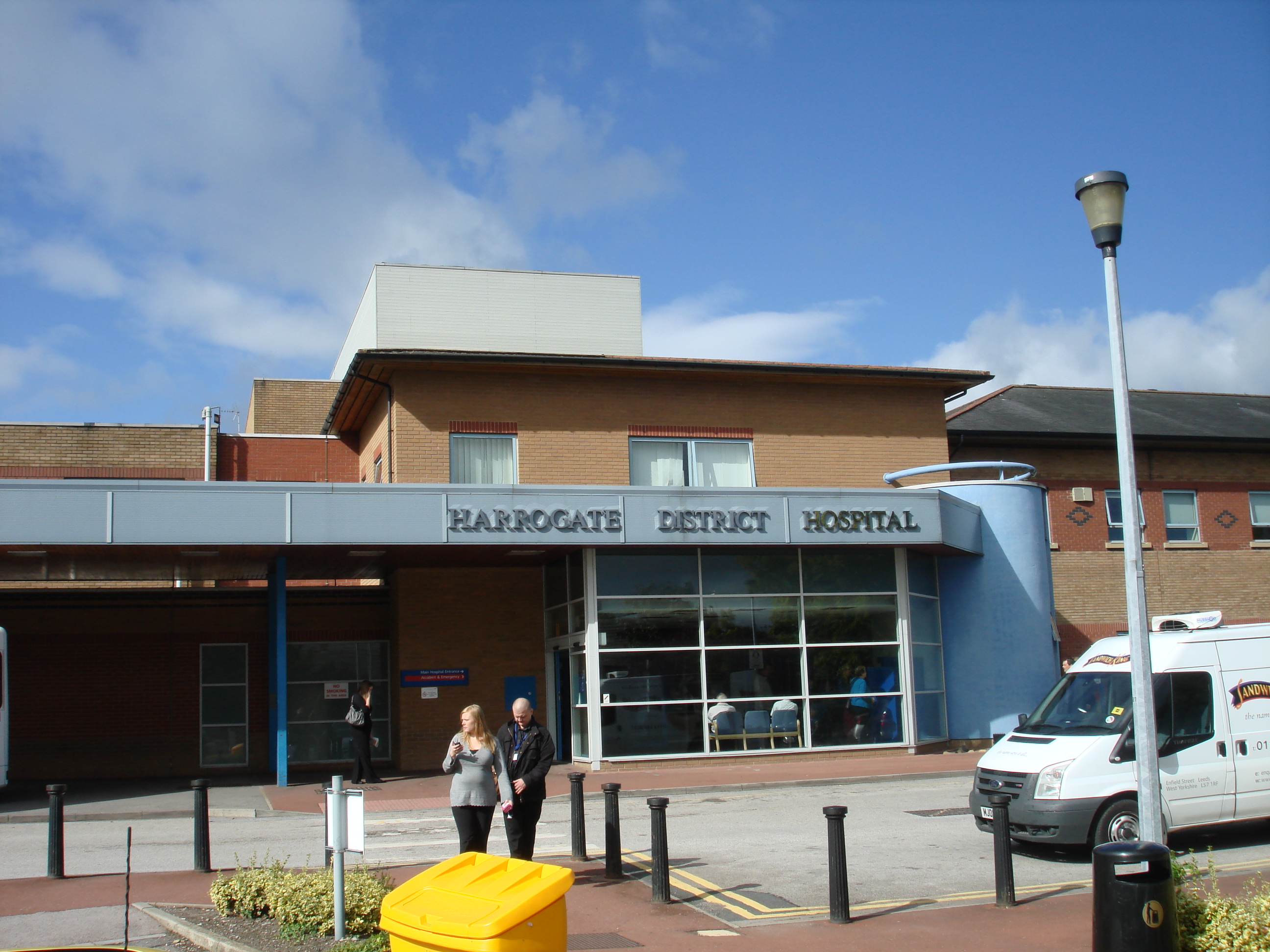 Harrogate district hospital main entrance